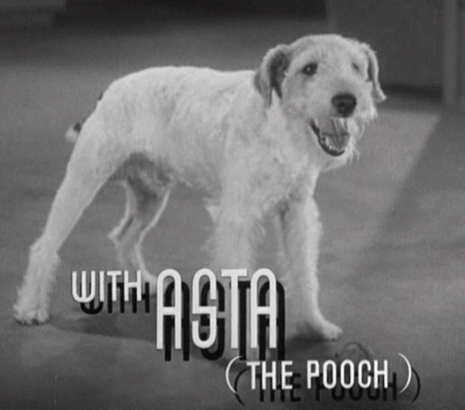 Cropped screenshot of Asta from the trailer for After the Thin Man